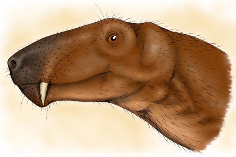 Biarmosuchus tener, reconstruction based on holotype PIN, no. 1758/2 and specimens PIN, nos. 1758/7 and 18, by M. F. Ivakhnenko